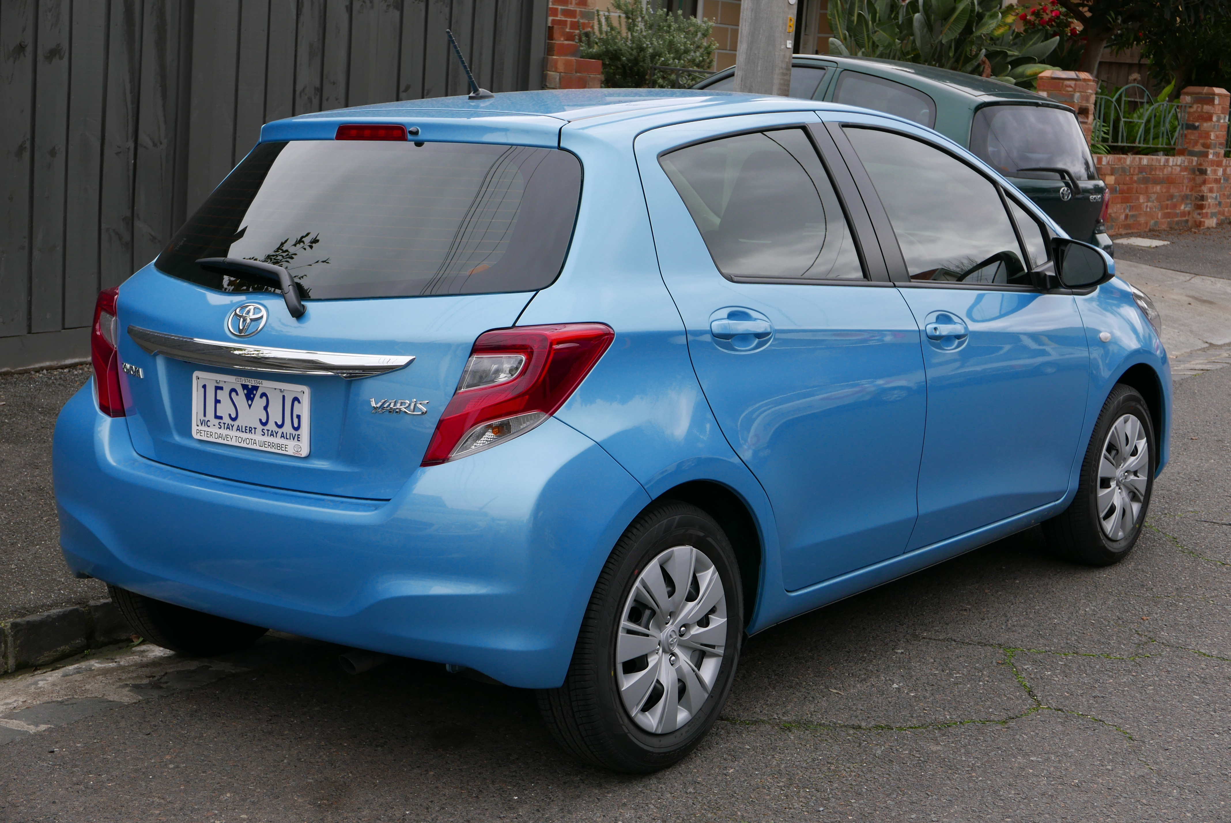 2015 Toyota Yaris (NCP130R) Ascent 5-door hatchback. Photographed in Brunswick East, Victoria, Australia. Vehicle registration enquiry resultsJurisdictionVictoriaRegistration1ES3JGChassis codeJTDKW3D360D565259Engine code2NZ7525742Compliance date2015-05Year of manufacture2015